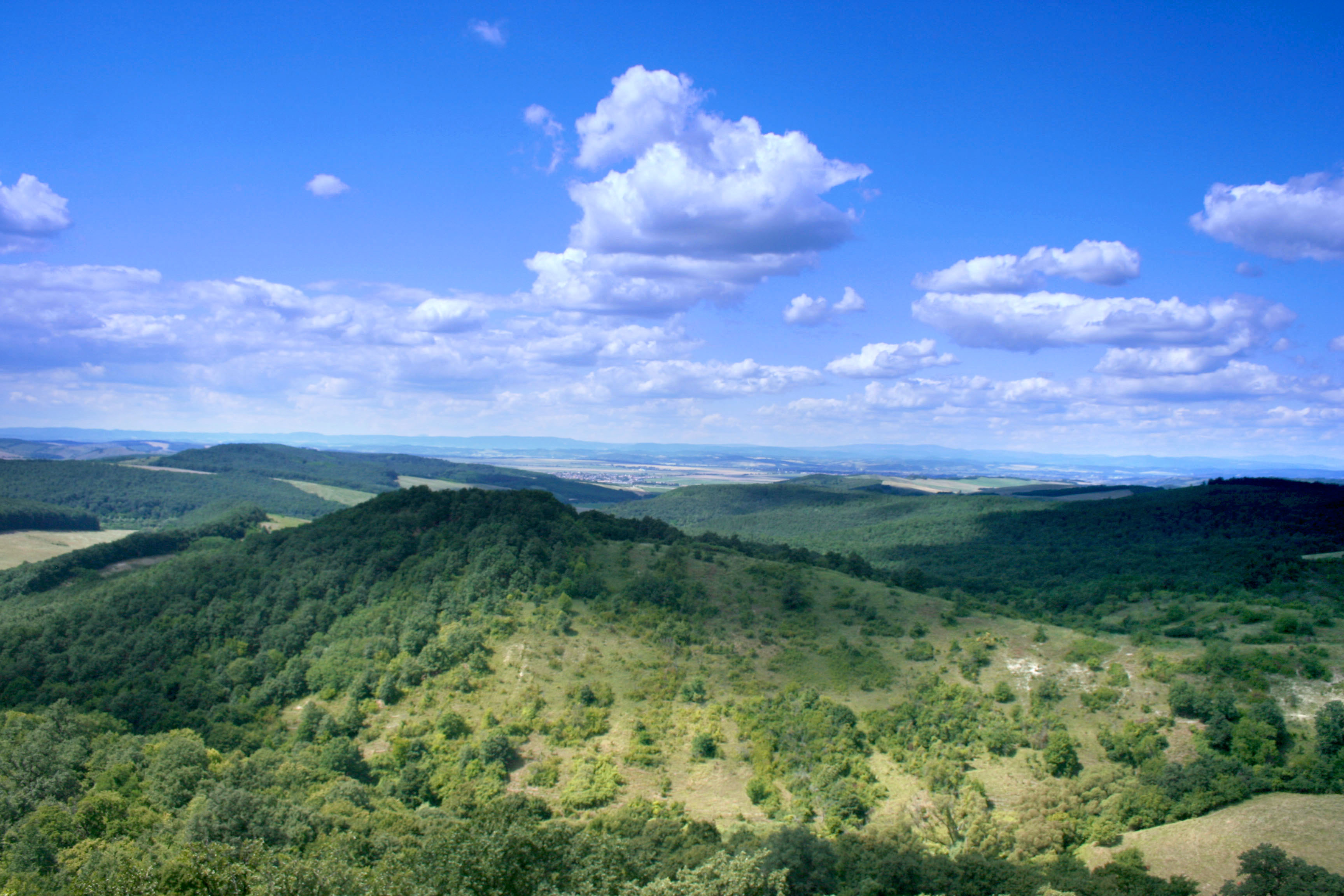 Cserhát Mountains, north of Hollókő, Hungary